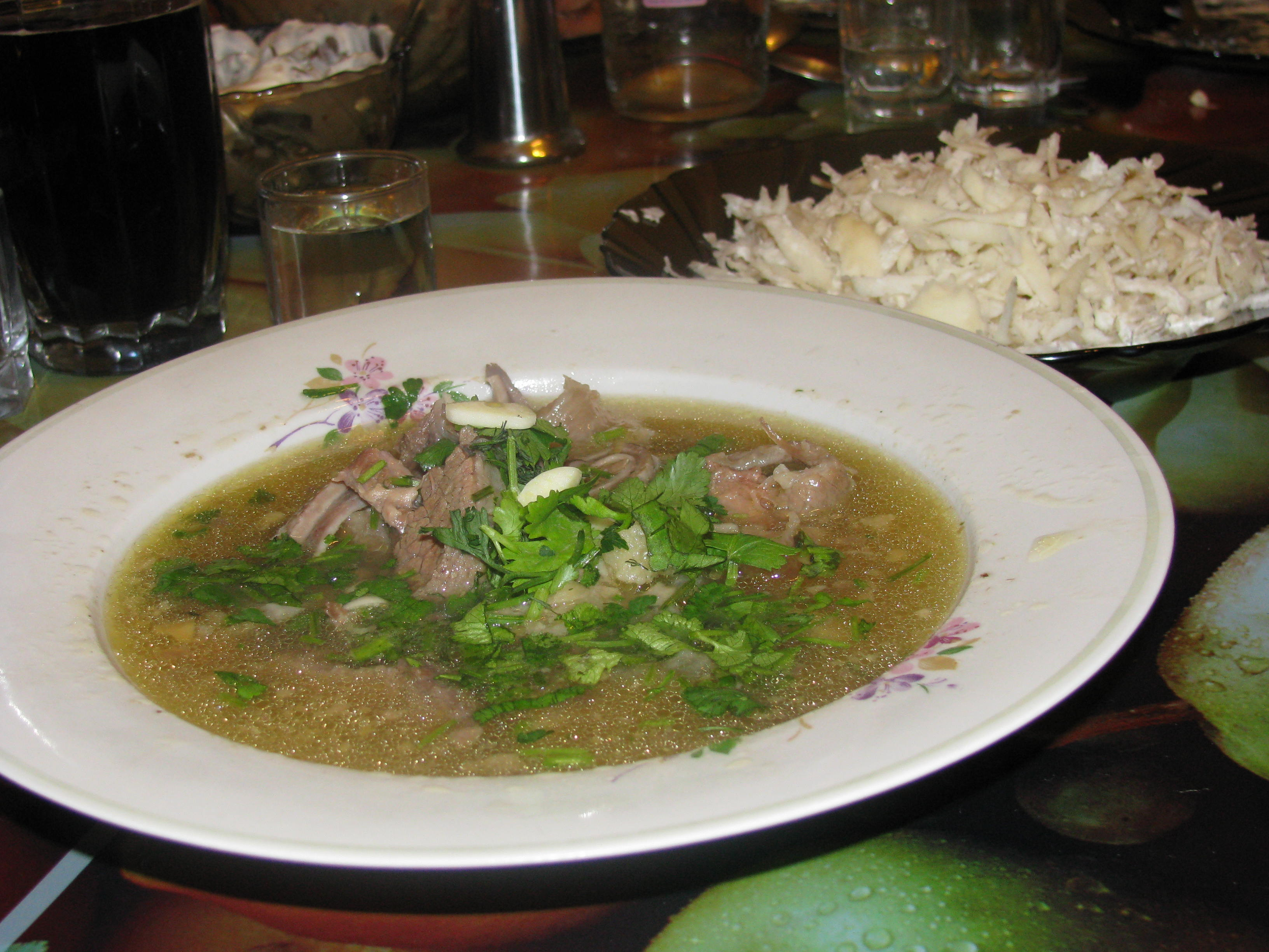 Khash